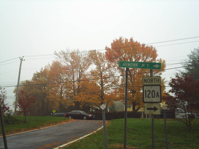 A Connecticut-style shield for New York State Route 120A at NY 120A's interchange with the Merritt and Hutchinson River Parkways.